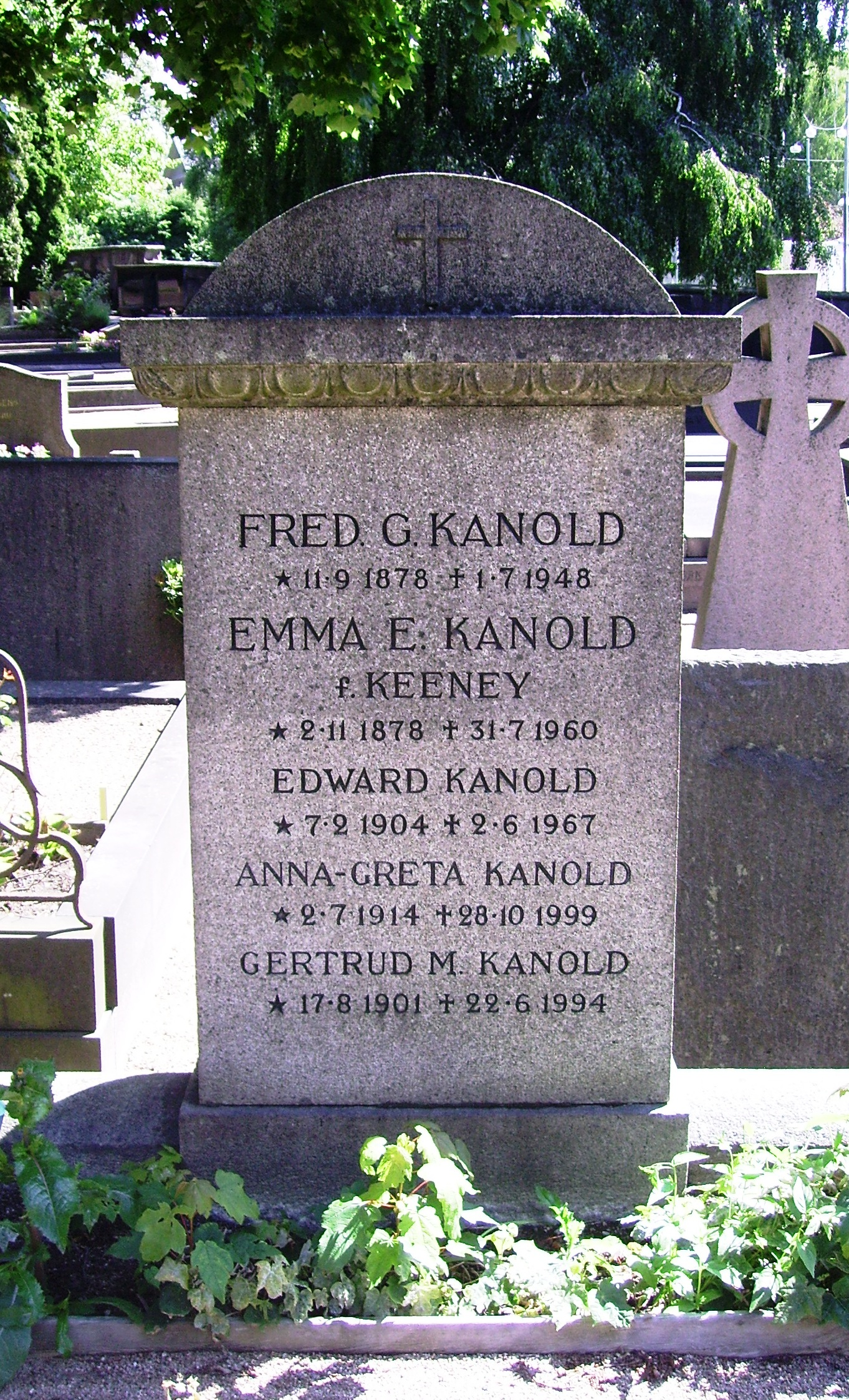 Picture of Fred G. Kanold's grave at Örgryte gamla kyrkogård in Gothenburg.